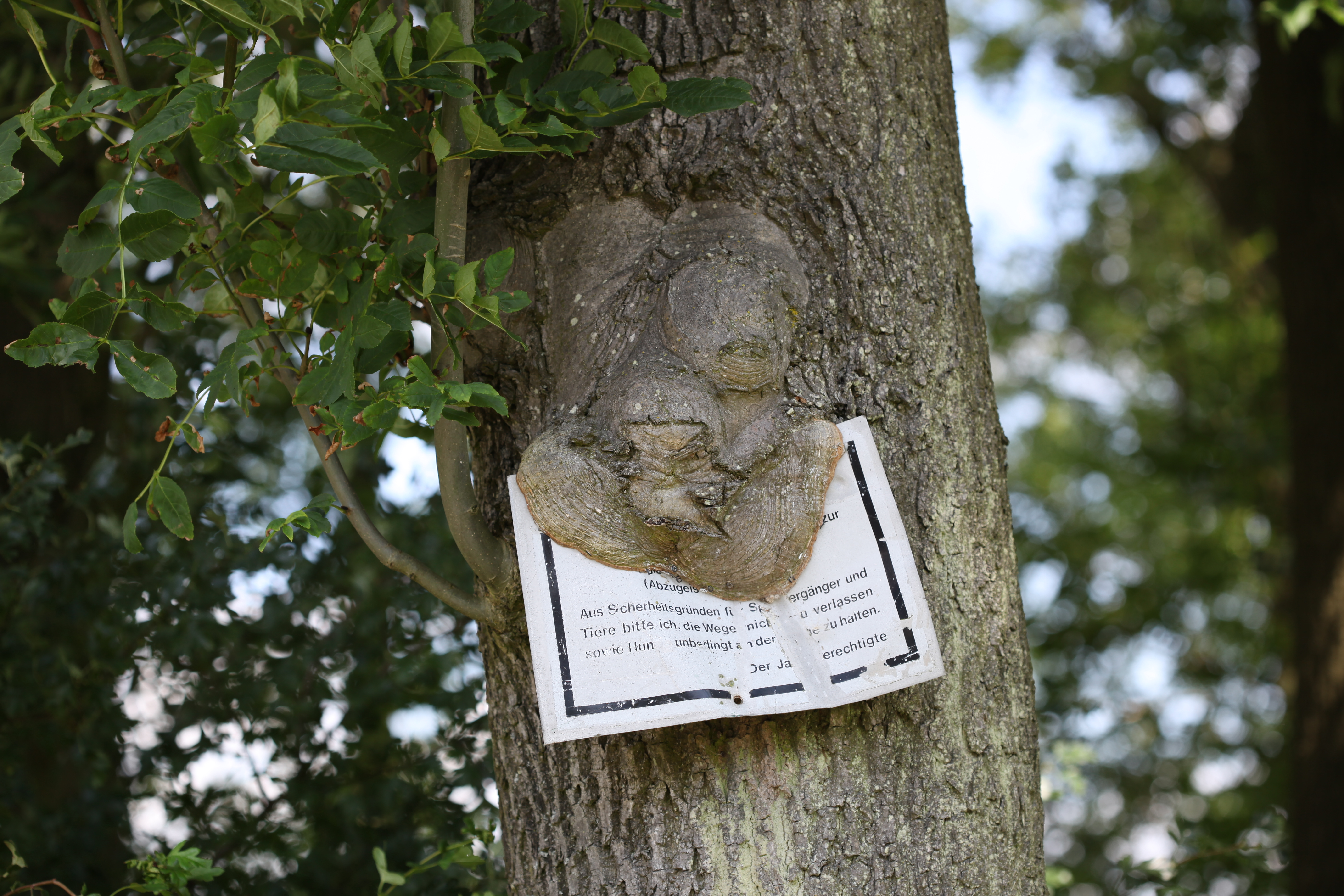 Wall off or callusing at a european ash fraxinus excelsior tree.